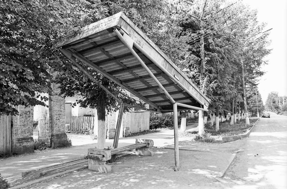 A bus stop has only one bearing and a roof, it has fallen to the side and stands crooked. The bus stop is in front of the children clinic in Pleshcheyevskaya street near the «New World» factory.